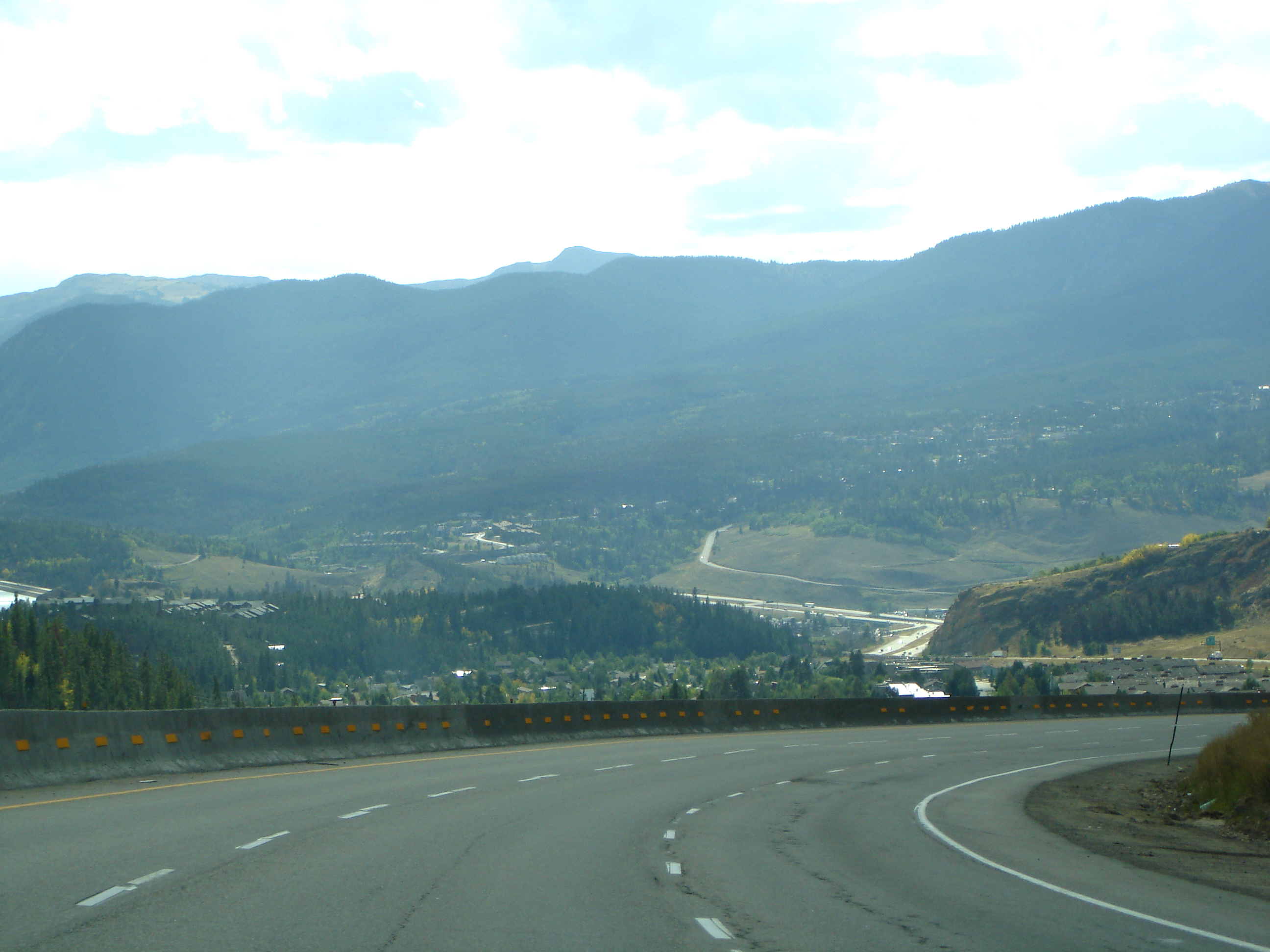 interstate 70 in the rocky mountains, from denver to the west